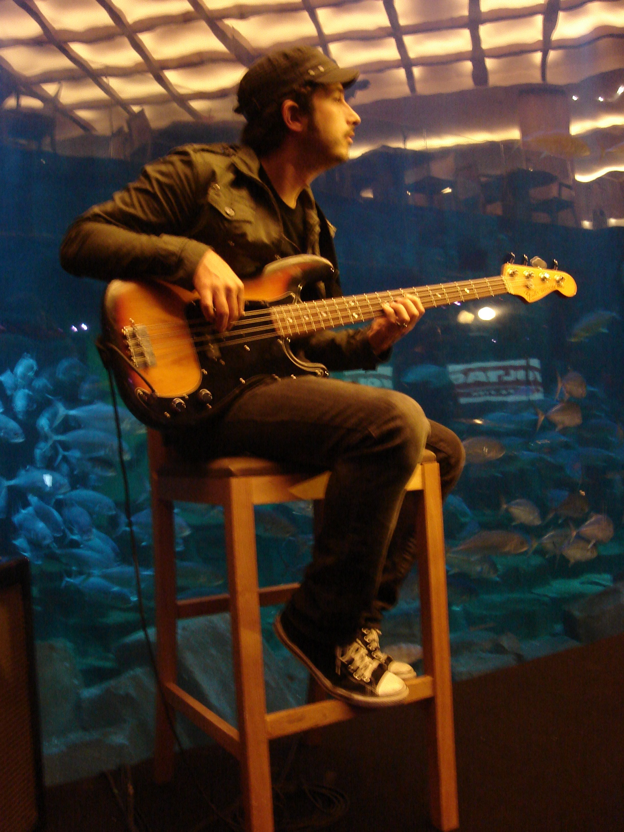 Live performance picture of Jeremy McCoy.